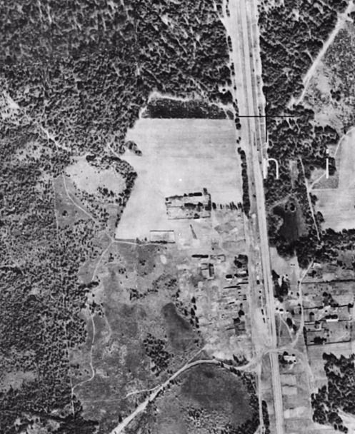 Frame details Date: 30 September 1941 Date known Location: obek; Lublin Province; Poland Coordinates (lat, lon): 51.448875, 23.597820 Description: ArcLand Project UNI: NCAP-000-000-261-327 Sortie: GXM/JARIC Frame: 2118 Corporate bodies German Air Force (Luftwaffe) Image type: Vertical Scale: 10000